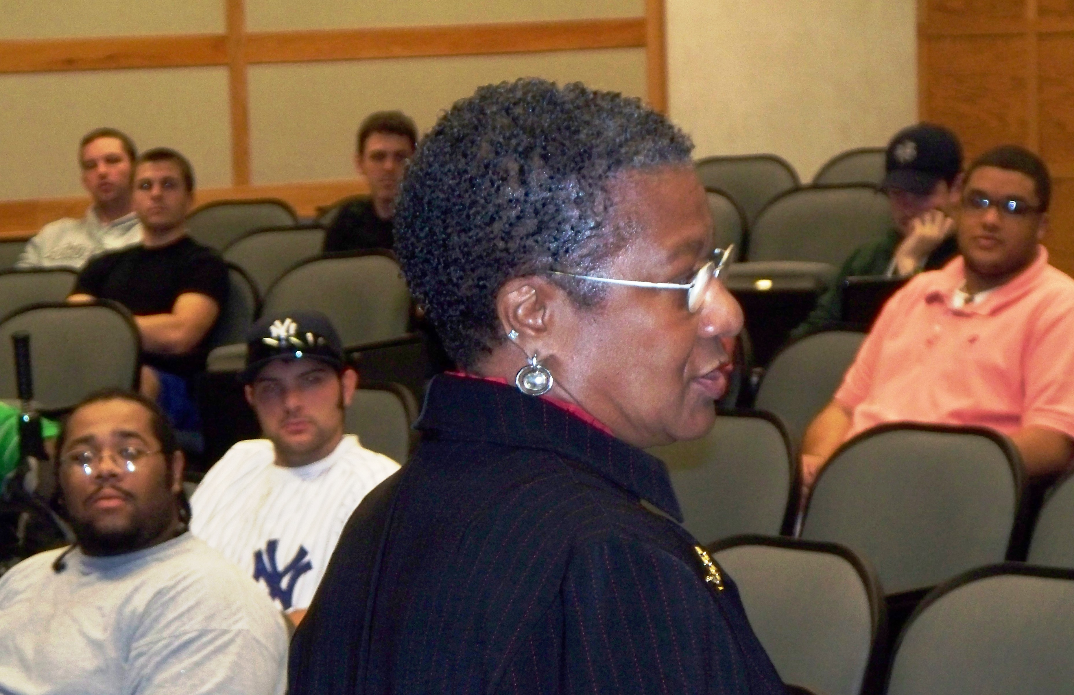 Rosalind Peychaud speaks on community organizing to students at Southeastern Louisiana University's Business Perspectives Program 2009. South Lecture Hall, Charles Emery Cate Teacher Education Center, Southeastern Louisiana University, Hammond, Louisiana, USA, 2009 October 22